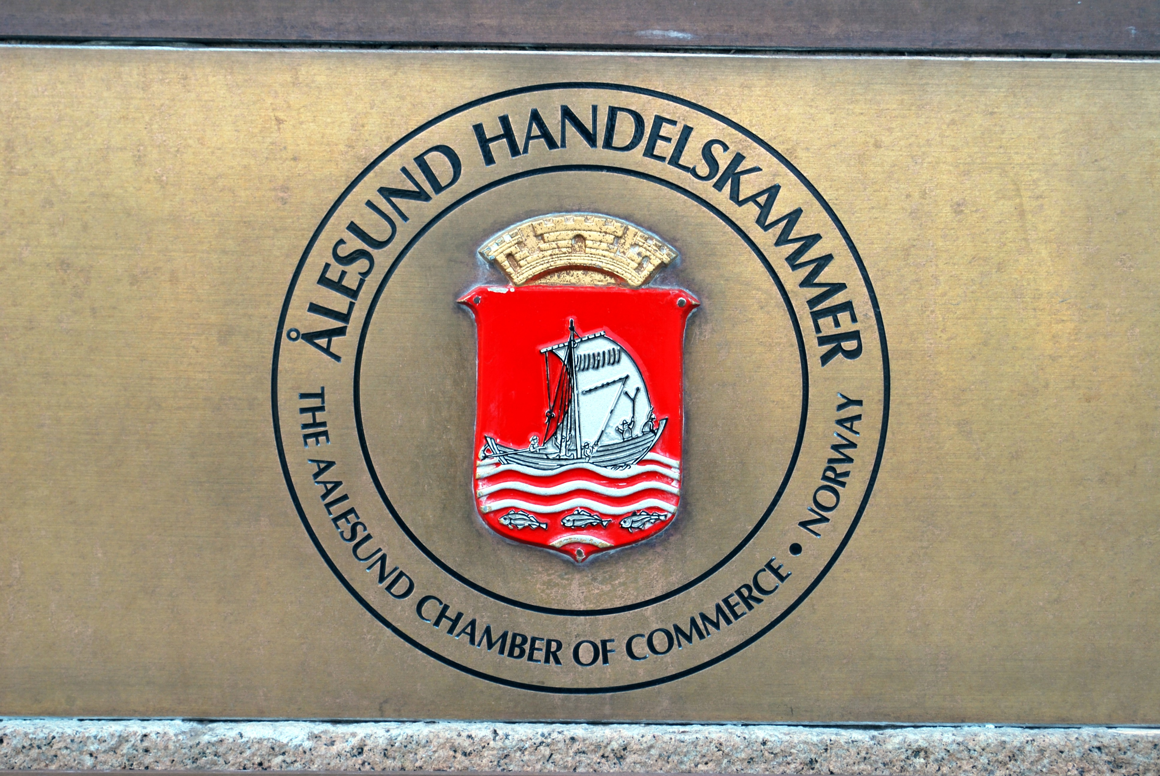 Ålesund Handelskammer, Aalesund Chamber of Commerce, sign. Ålesund.